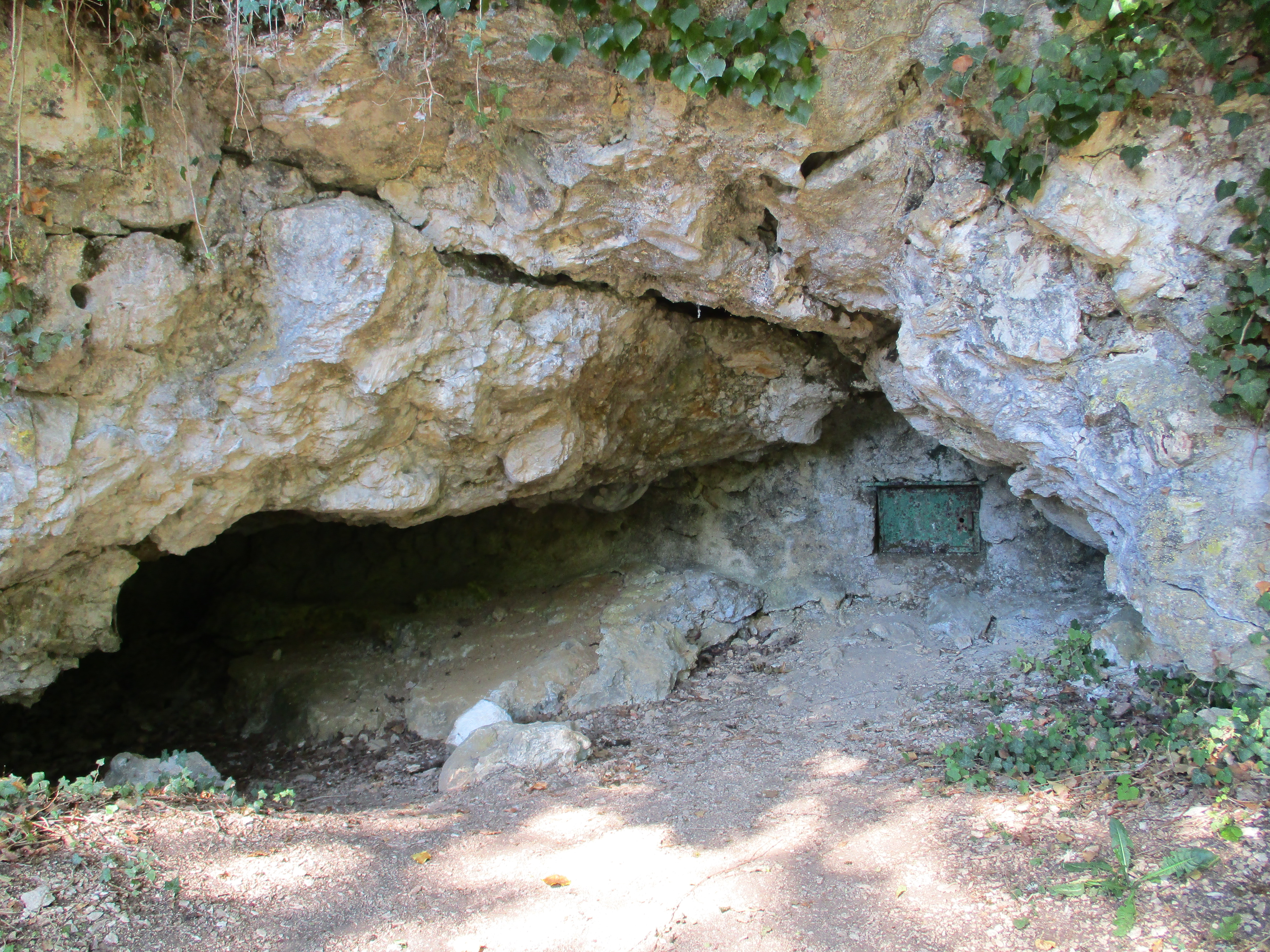 Walled-up entrance to the Grotte du Cheval (Horse cave), Arcy-sur-Cure, Yonne, Burgundy, France; and the small shelter to its left. There is a very narrow passage some 70 m inside the cave. When the cave entrance was walled shut (as seen here), it was decided that the door would be as narrow as that inner passage so that people who could not pass the inner passage would not be able to pass this door either, and thus would not get stuck 70 m away from the entrance. This information was provided by Nadine, guide in the Great Cave.